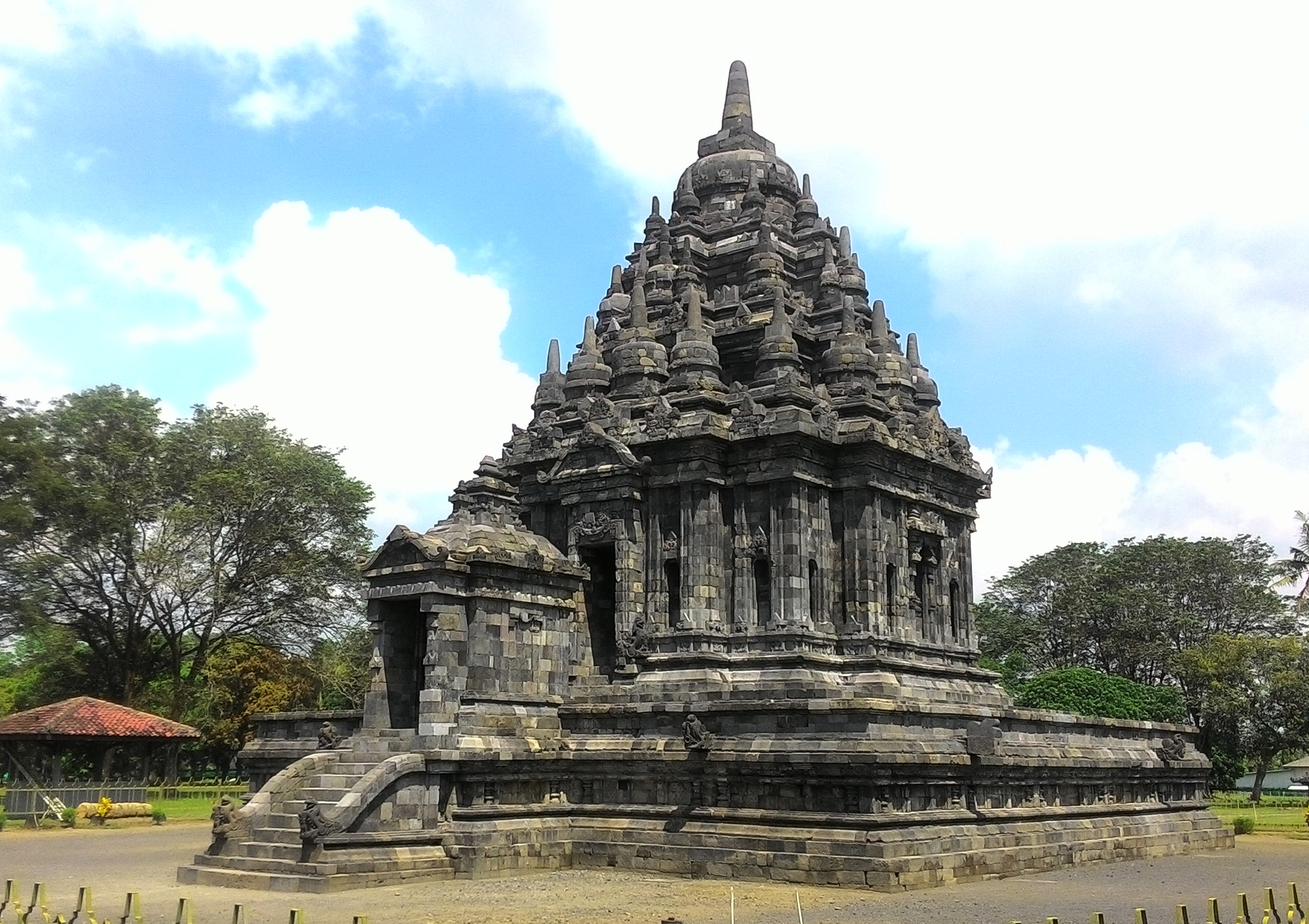 A corner view of Candi Bubrah, a 9th century Javanese Buddhist temple in 2019, after the reconstruction. The temple is located in Prambanan Archaeological Park, Central Java, Indonesia.